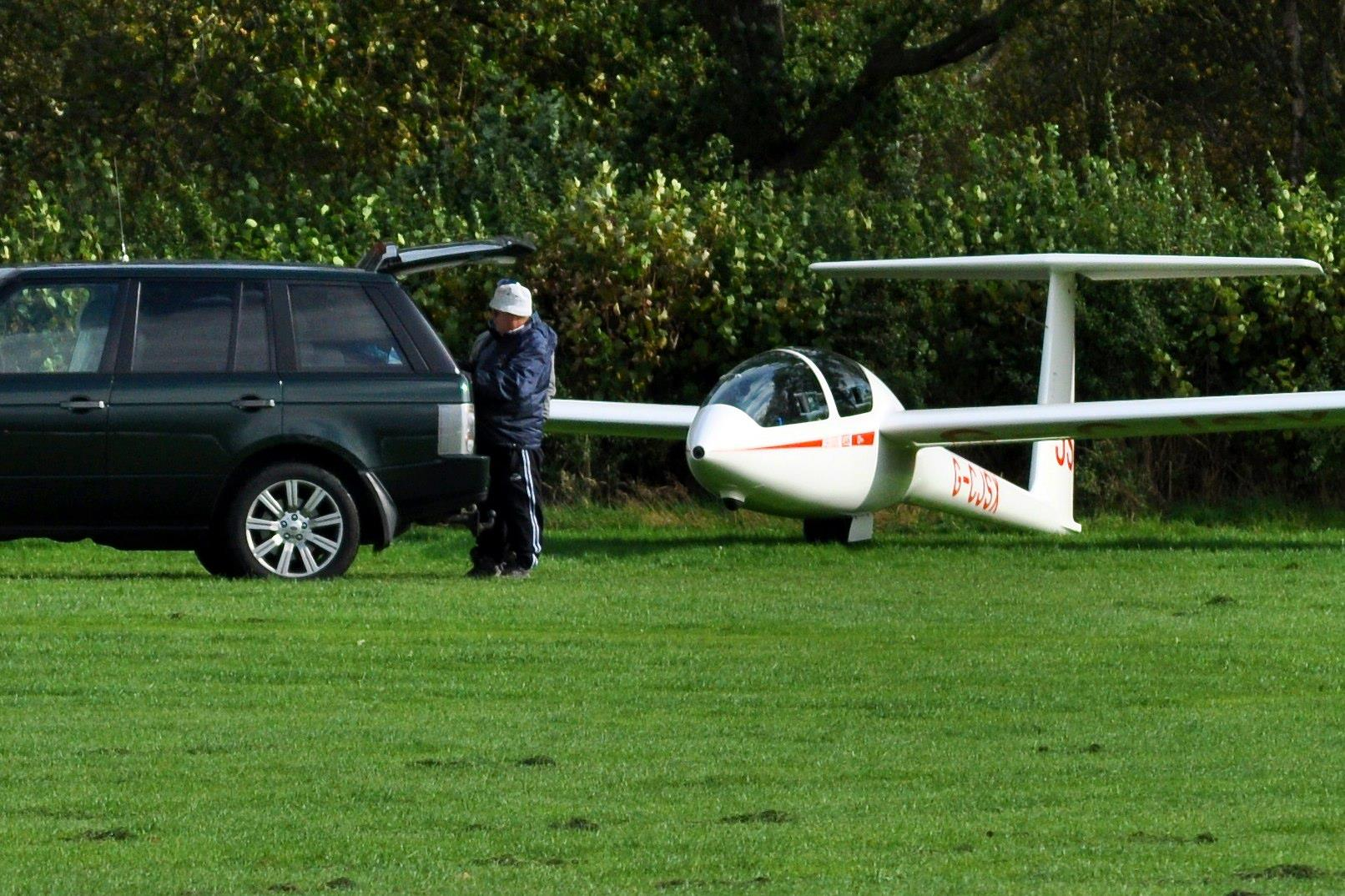 DG505 being prepared for flight at Talgarth